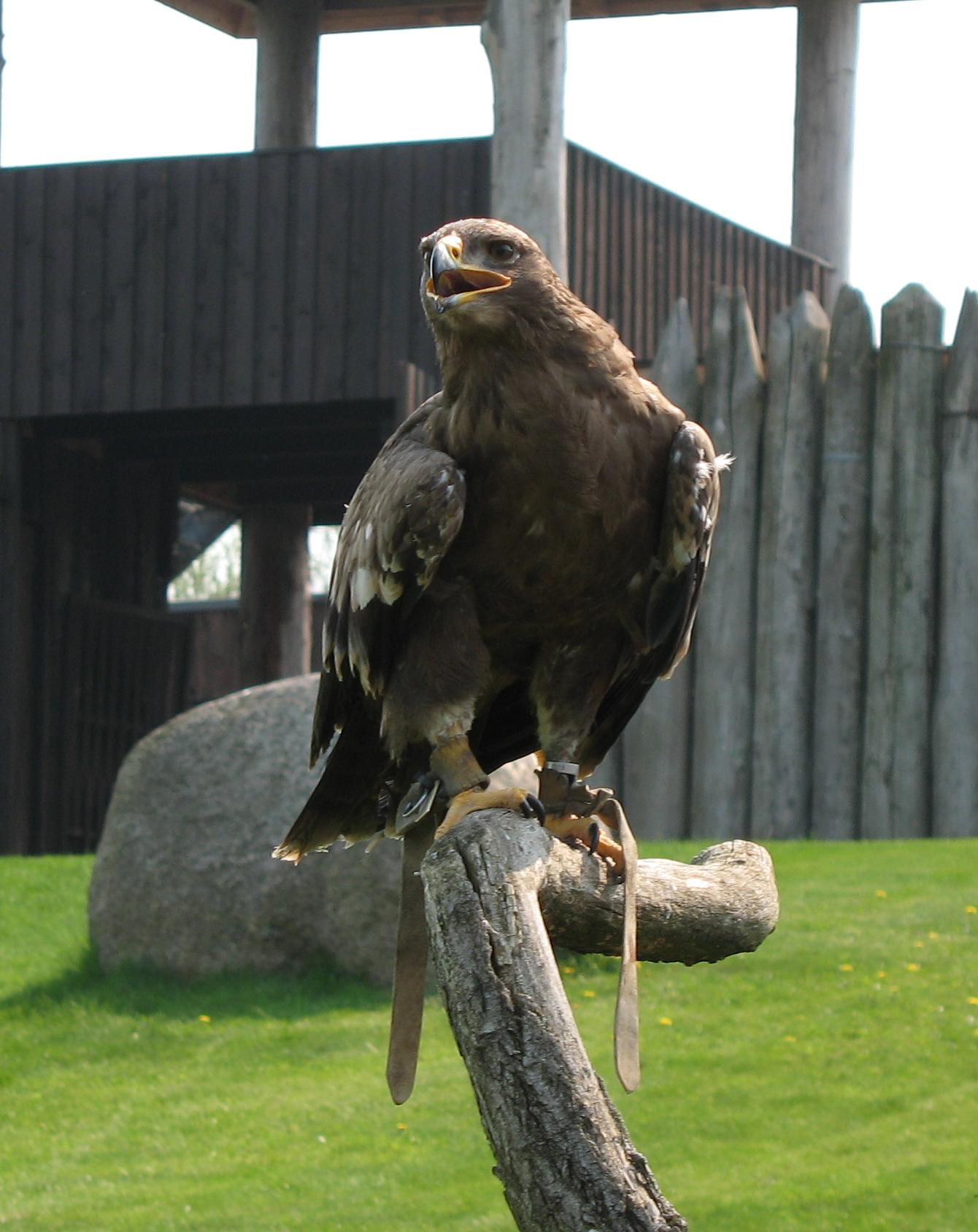 Lesser Spotted Eagle (Aquila pomarina) at Birdpark Marlow